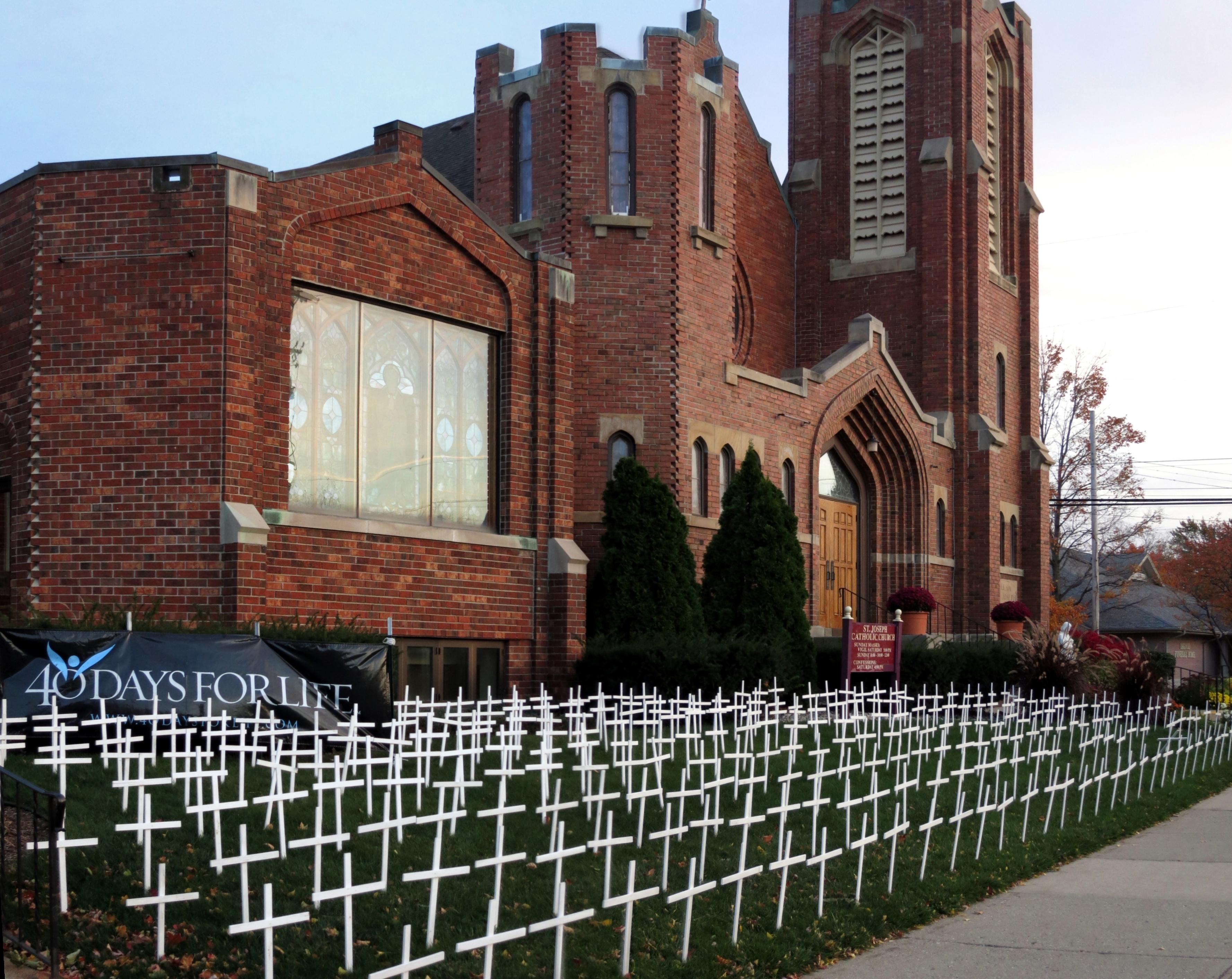 Since the 2000s more and more churches of various denomination have participated in a temporary public display to make visible a token for the number abortions around USA that are recorded. Each crucifix stands for a much larger number.